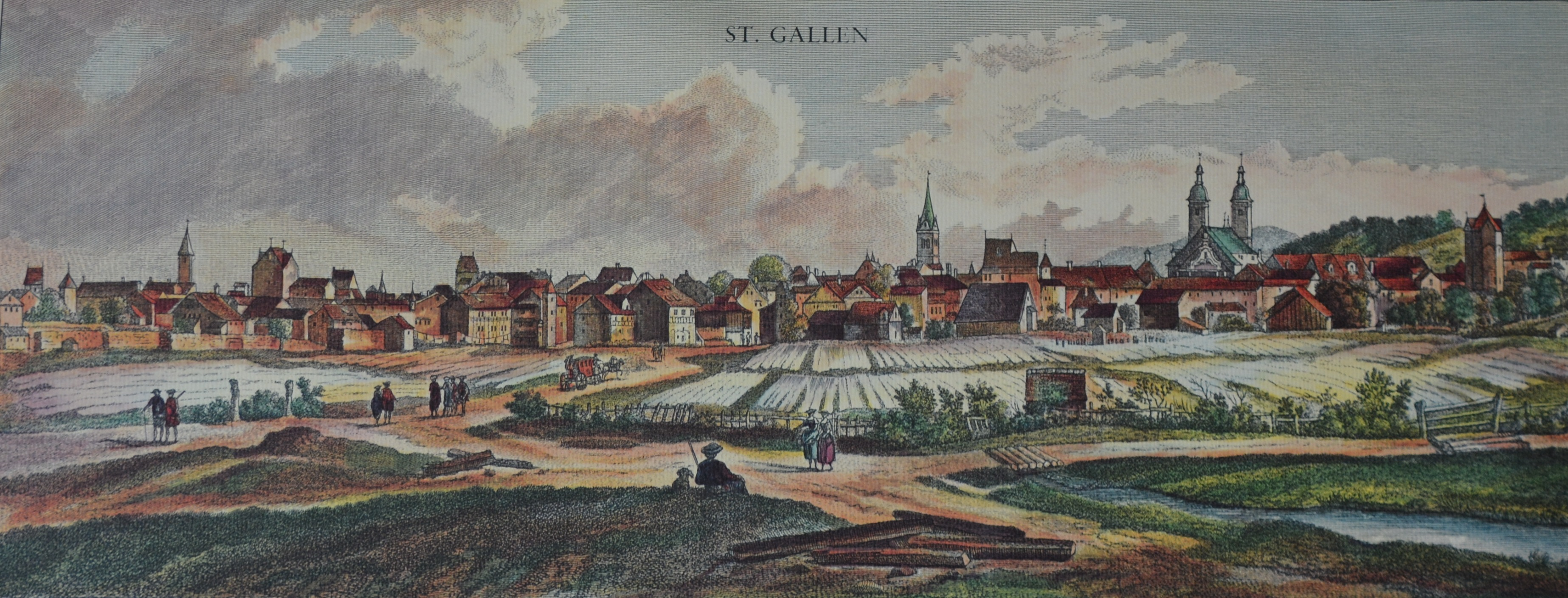 Sankt Gallen, 18th Century, by Perignon